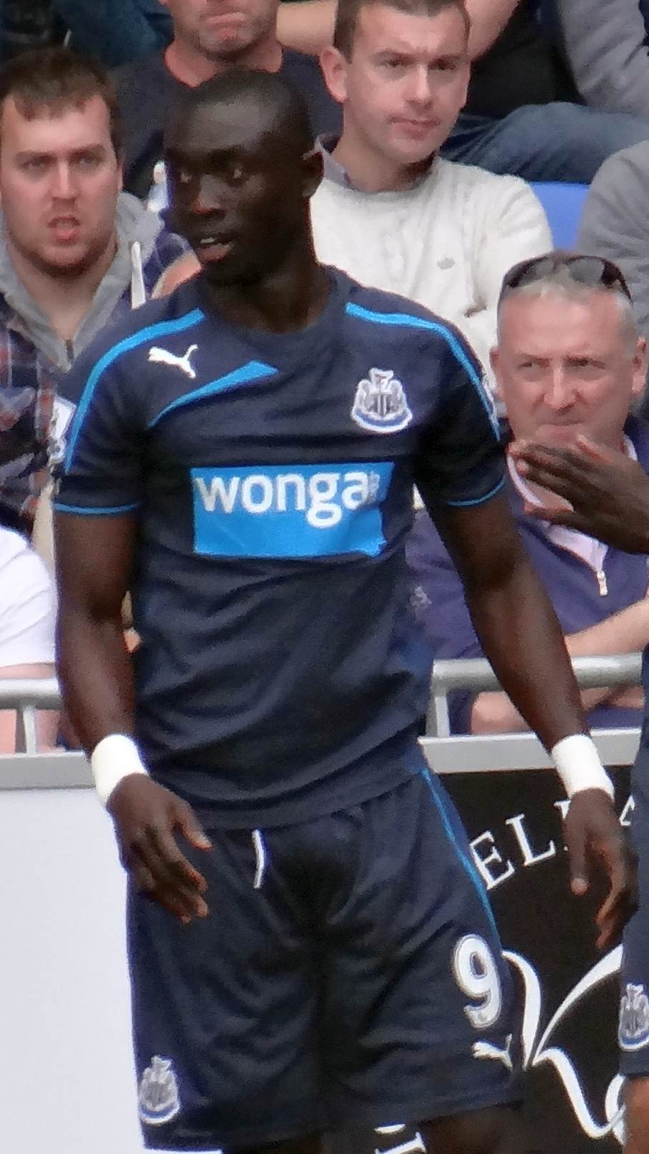 Papiss Cisse playing for Newcastle United in 2013.